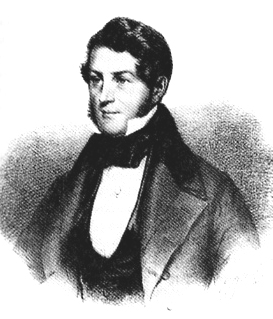 Carl Gottlob Reissiger